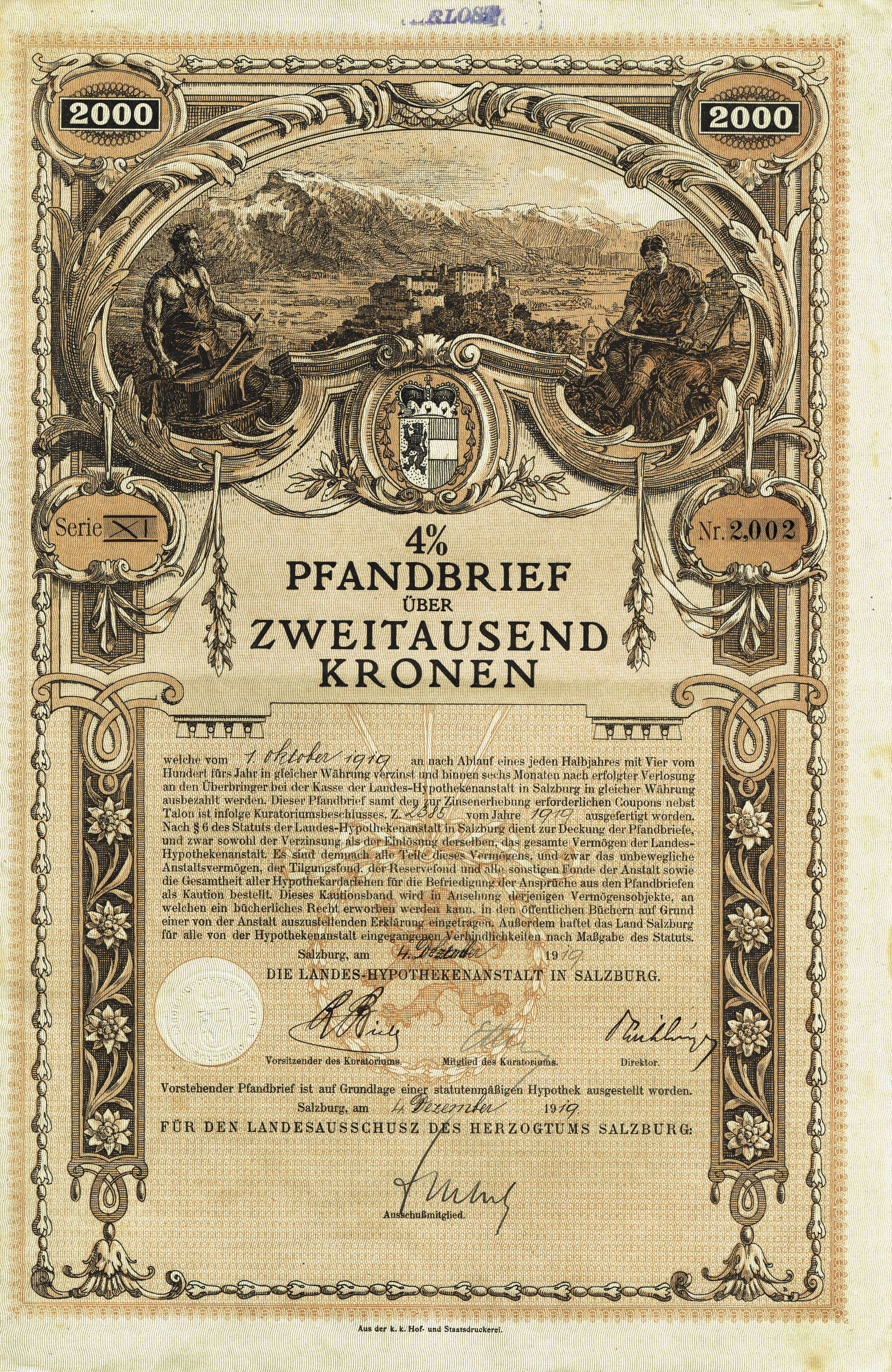 Bond of the Landes-Hypothekenanstalt in Salzburg, issued 4. December 1919